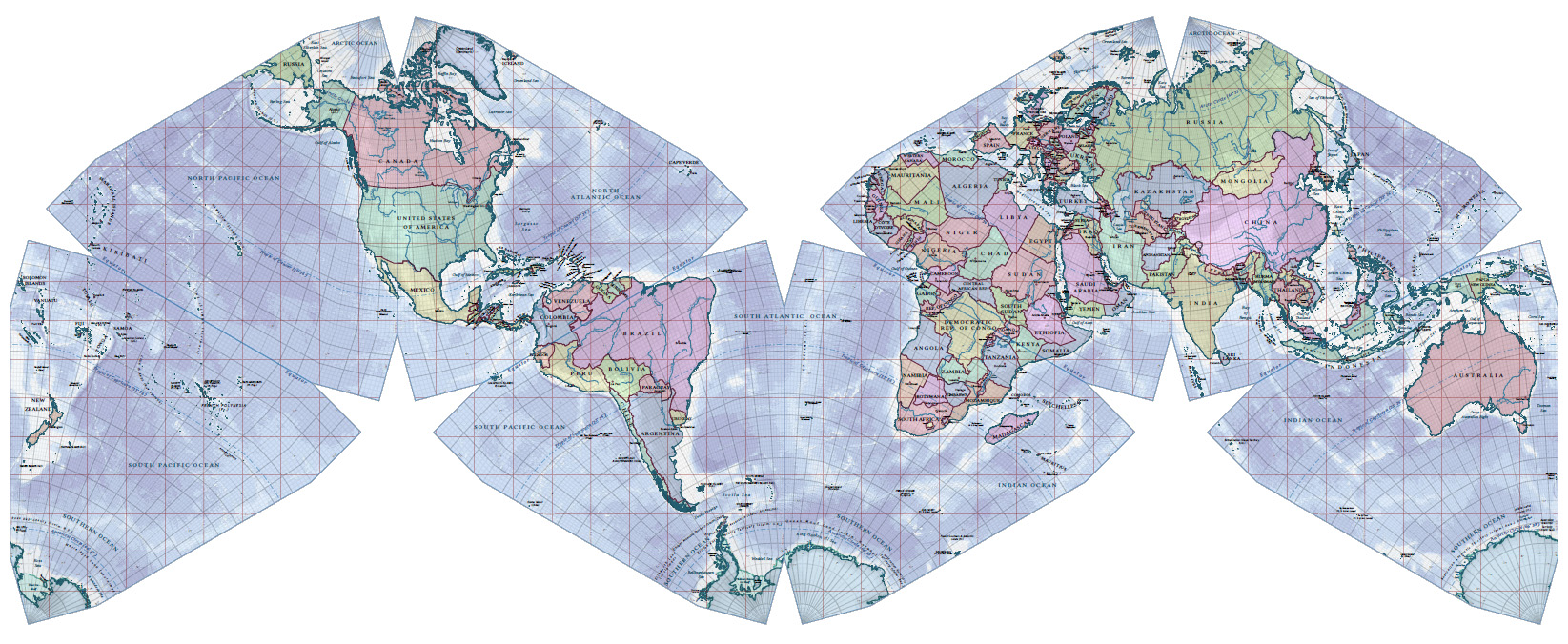 This is a political world map for 2013 CE using the Cahill–Keyes Projection.